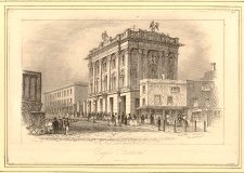 The Eagle Tavern, which was situated on the corner of City Road and Shepherdess Walk in London. It became a music hall in 1825 where Marie Lloyd made her debut performance in the 1880s. The building was later sold to the Salvation Army in 1883, before being demolished in 1901. The engraving dates from 1841 and the author is cited as being John Shury.